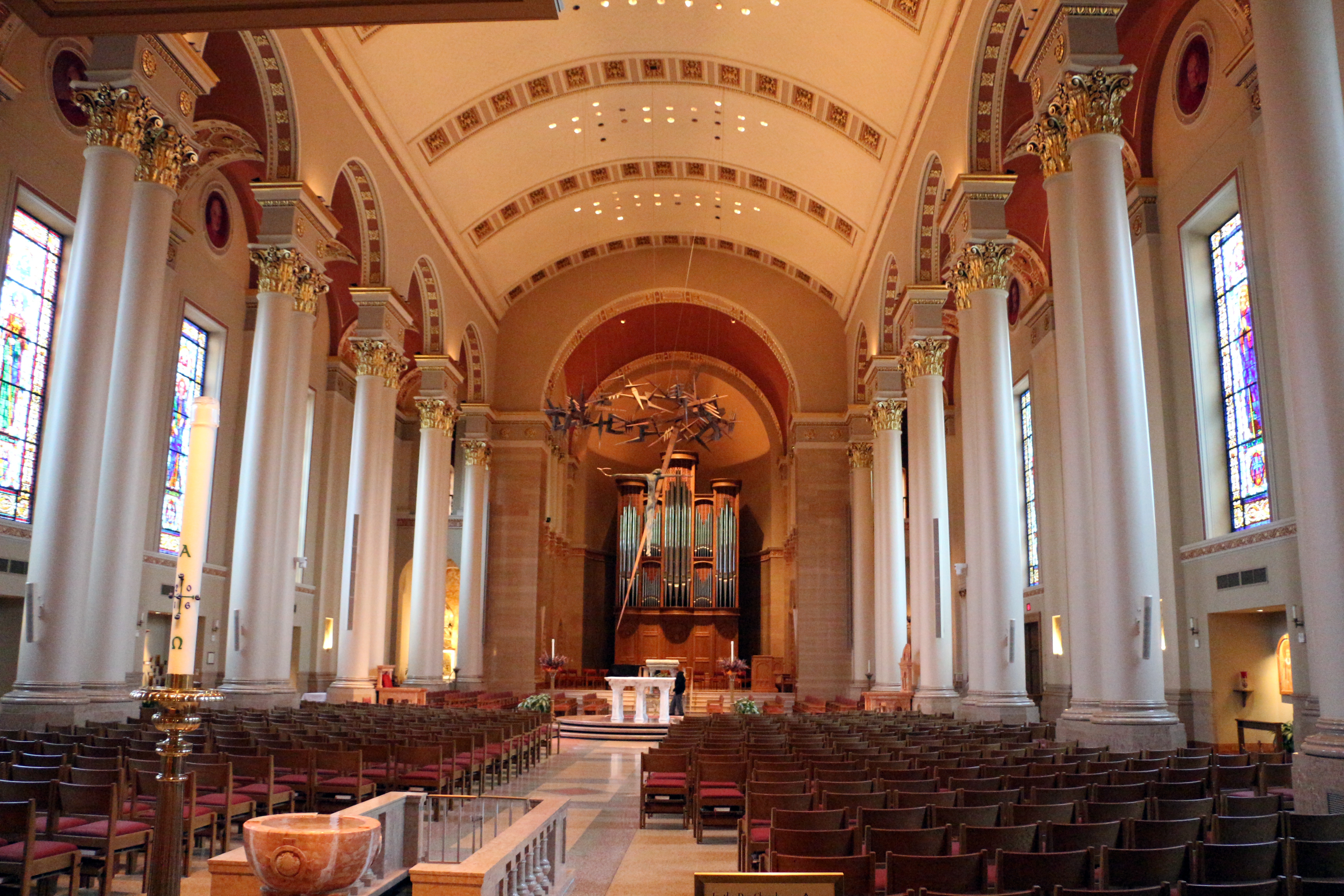 Interior of the Cathedral of St. John the Evangelist (Milwaukee)